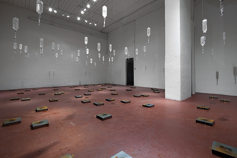 60 medical infusion sets, water, fire, metal sheets 20x20x4cm⎢Zimoun 2013. Installation view: Meetfactory Prague, Czech Republic